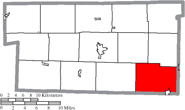 Map of the municipal and township boundaries of Holmes County, Ohio, United States, as of the 2000 census, with the location of Clark Township highlighted. Township borders are shown only in unincorporated areas in order to differentiate incorporated and unincorporated areas more clearly.